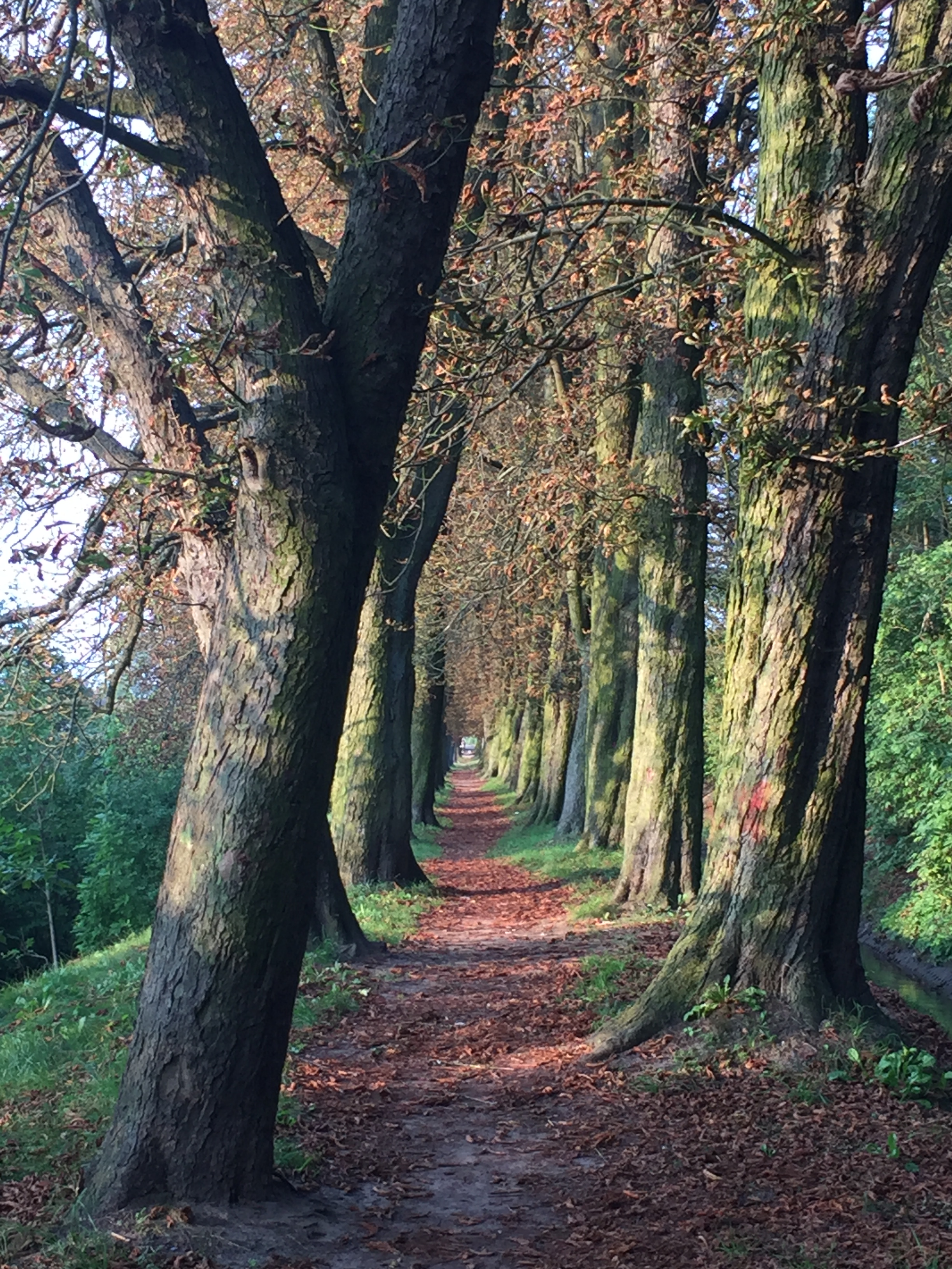 Avenue of chestnut trees, Cedynia, Poland, September 2016